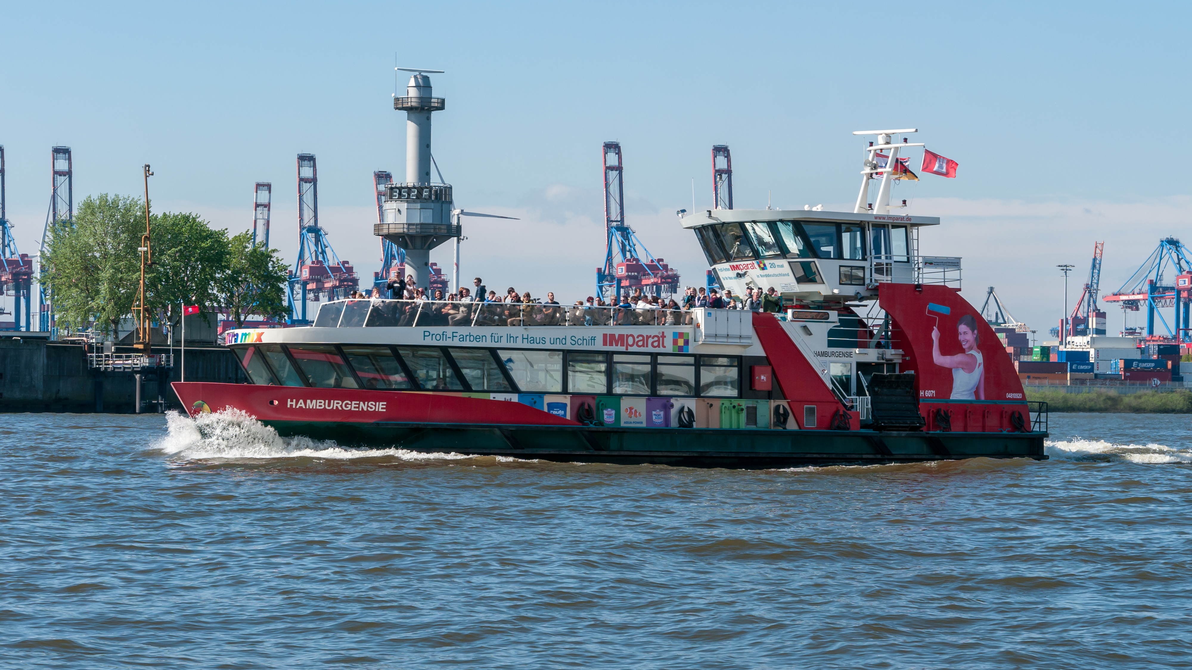 Hamburgensie on the Norderelbe, Hamburg 2019